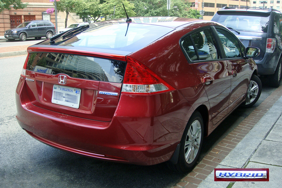 Rear view of the Honda Insight Hybrid, Virginia plates, at Washington, DC